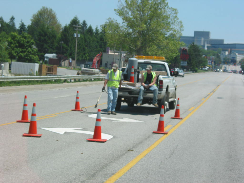 Road construction has many hazards but with proper warning cones and safety equipment a road can be marked during a busy work day of traffic.